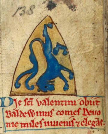 Inverted shield with arms of Baldwin, count of Devon